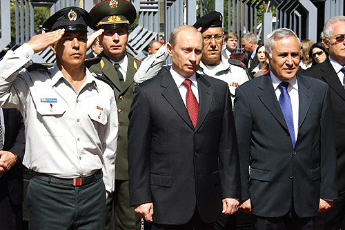 JERUSALEM. Welcoming ceremony for the Russian President. On the left hand of Mr Putin is President of Israel Moshe Katsav.